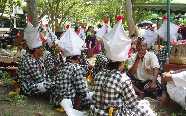 At a purification ceremony in Kuta, 2009. Baris dancer's in poleng performed a dance to overcome malign spirits